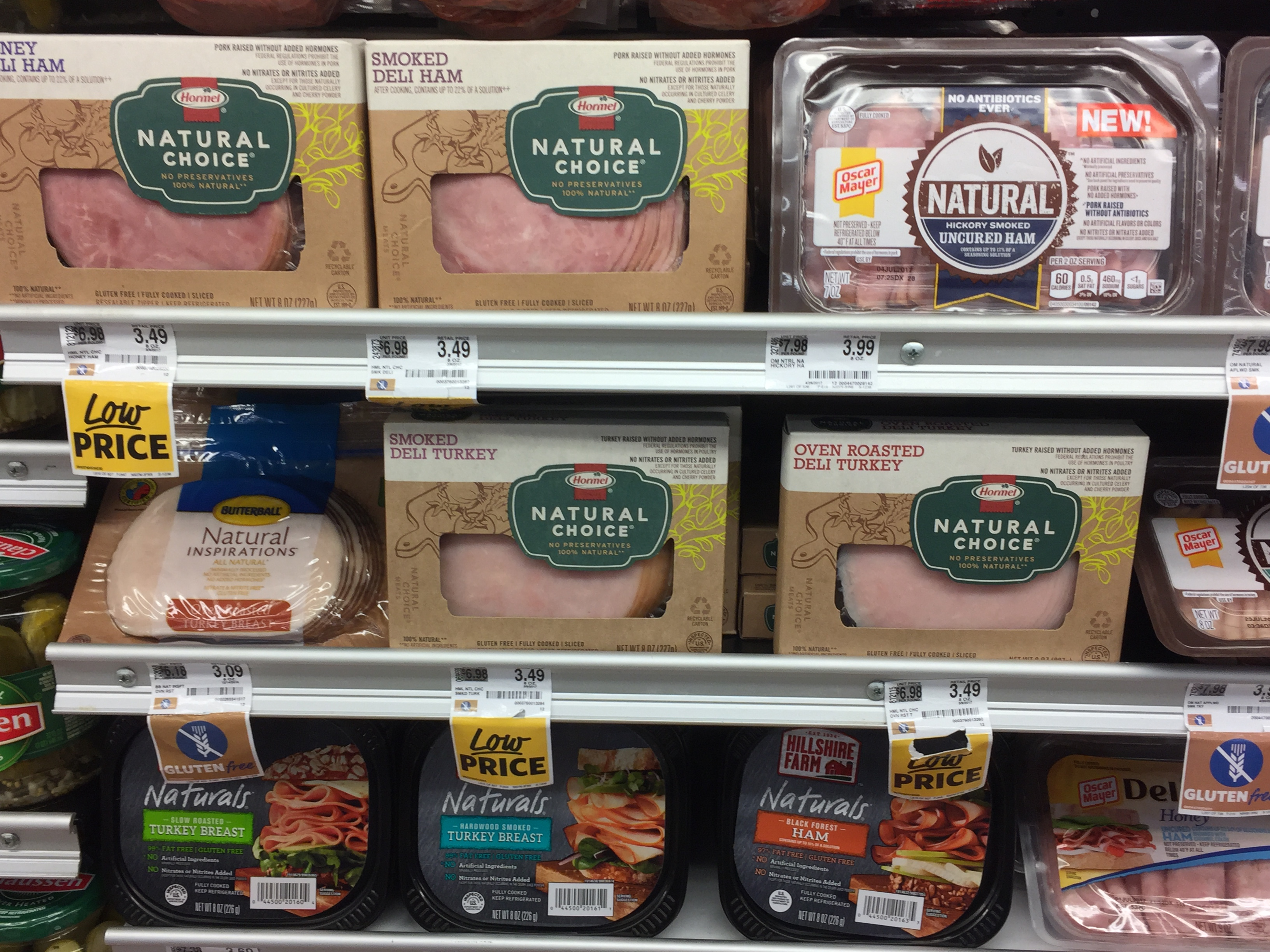 An real-world example of the 'Appeal to Nature' logical fallacy: A supermarket shelf with four different brands advertising themselves, in some form, as 'natural'.